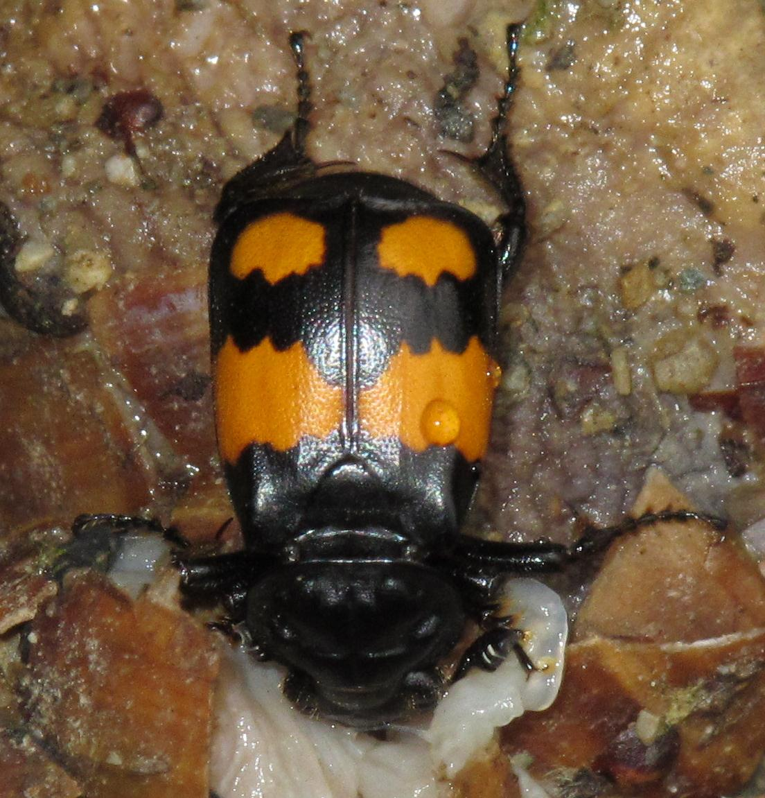 Nicrophorus vespilloides, from a forest near Hainburg/Donau (Austria)